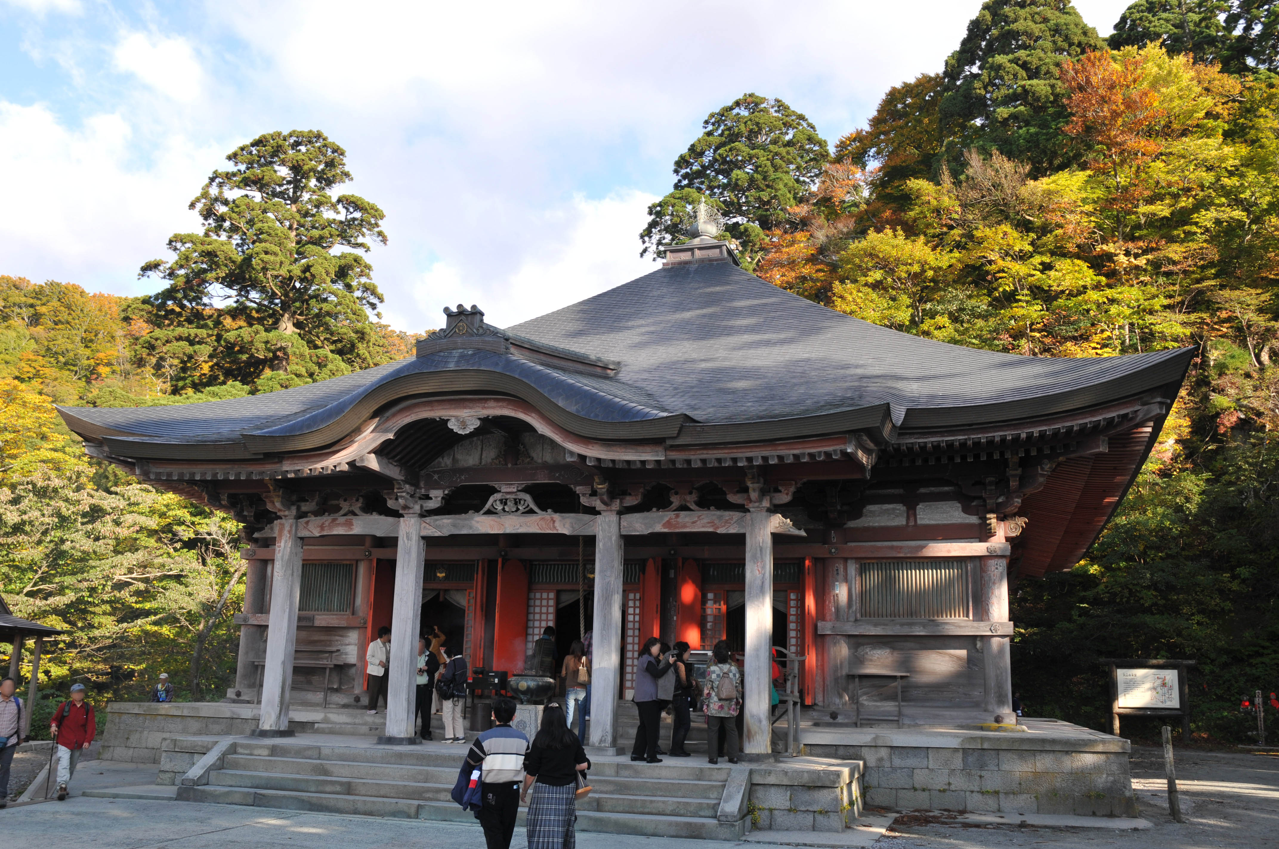 main temple